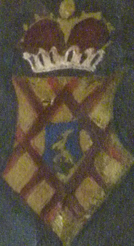 Coat of arms of Nándor Lipót Pálffy-Daun (1807 - 1900). Portrait, Červený Kameň Castle.